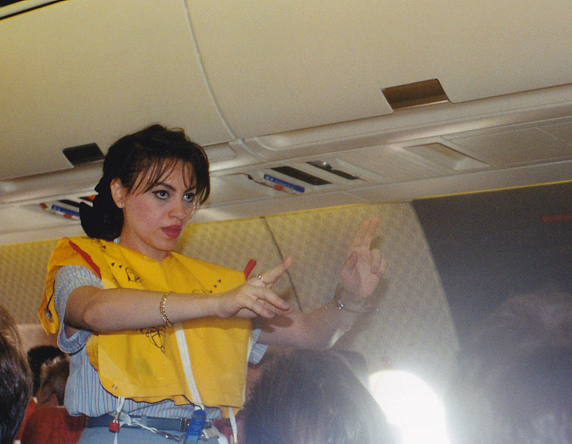 Egyptair flight attendant explaining how to use the life jacket during the safety briefing